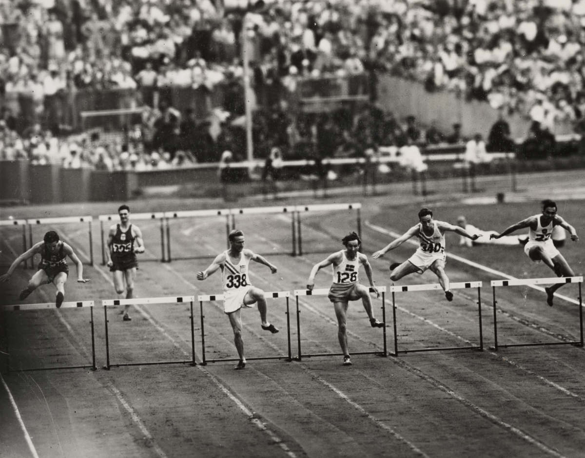 Carl Rune Larsson of Sweden (b.1924) winning a 400 metres hurdles heat. He went on to win bronze in the event finals and also ran with Kurt Lundquist, Lars Wolfbrandt and Folke Alvevik in the 4x400 metres relay where the Swedes won bronze. Daily Herald Archive at the National Media Museum